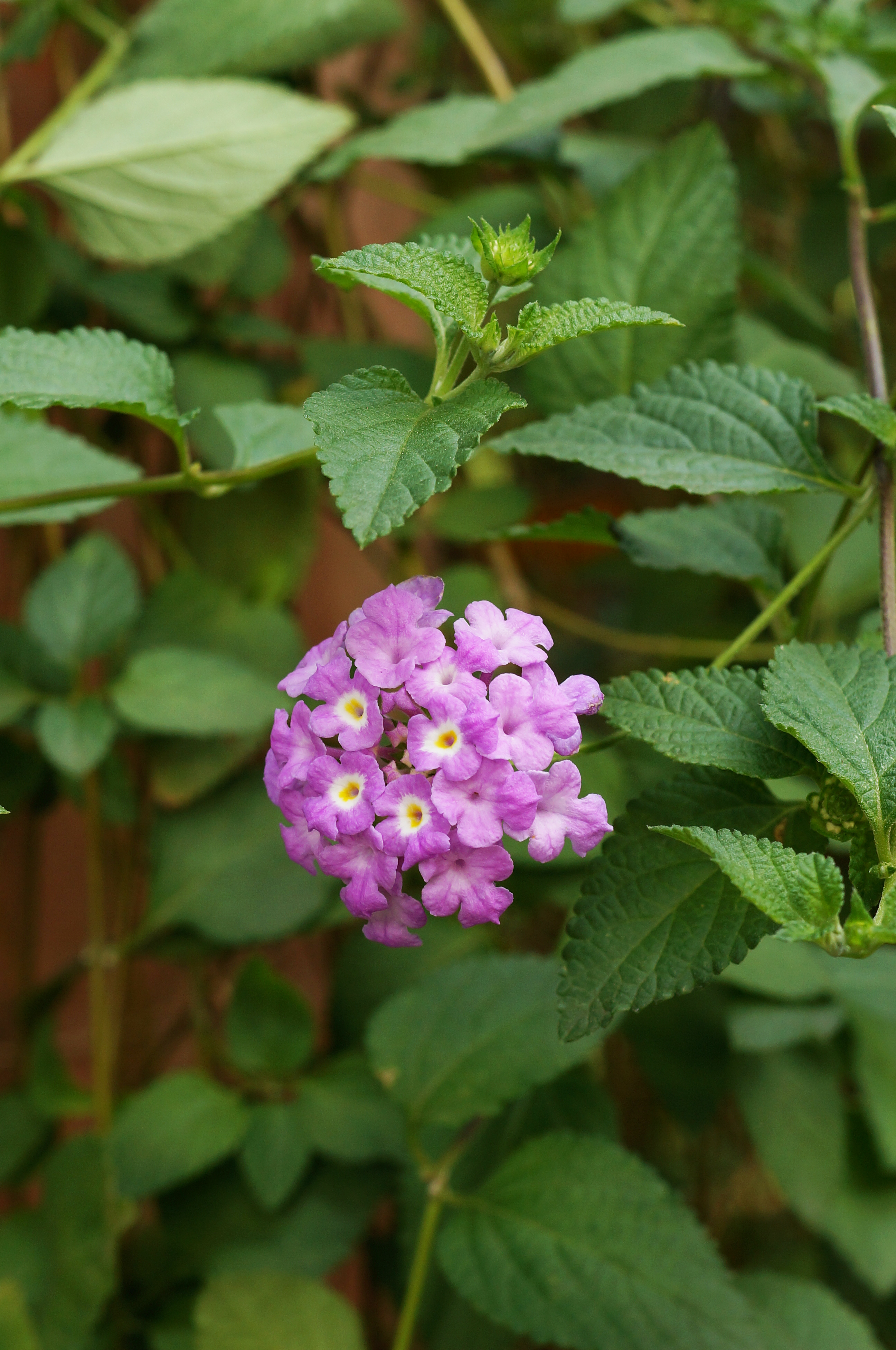 Purple lantana